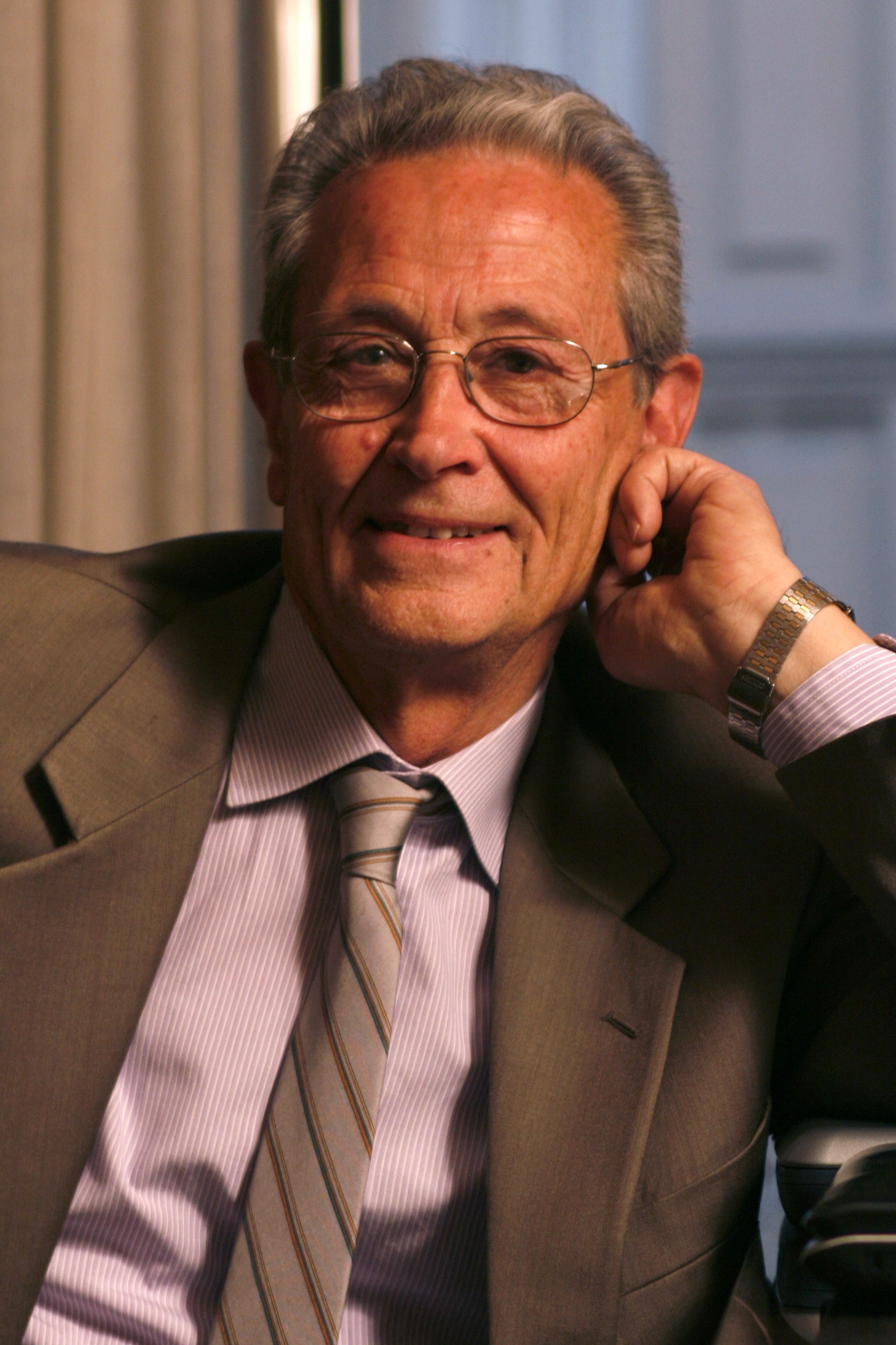 own picture